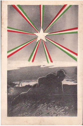 The stellone of Italy giving assistance to the Italian soldier in the trenches. Postcard of the First World War, 1915-1918.